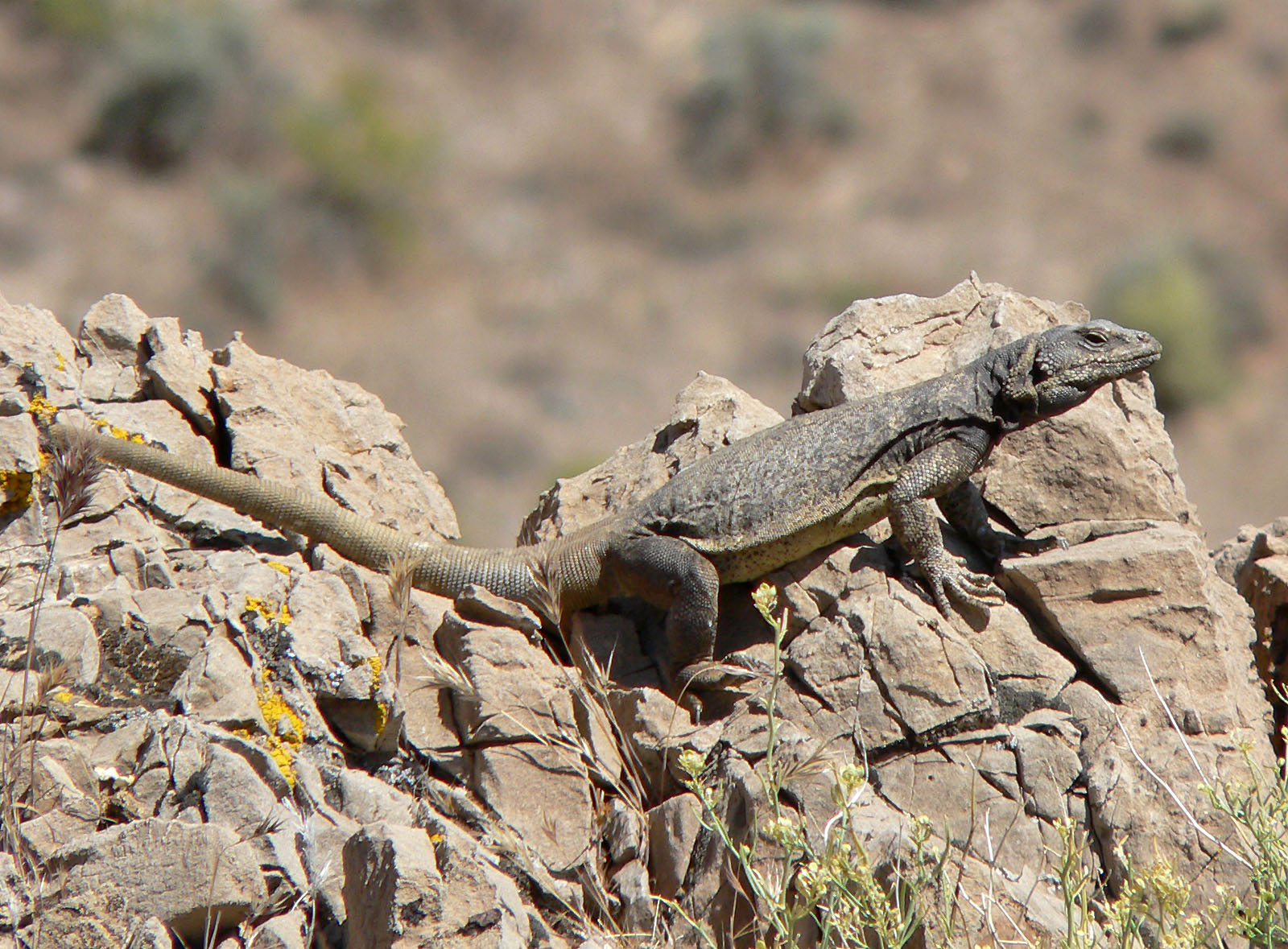 Sauromalus ater (chuckwalla) at Columbia Pass, Spring Mountains, southern Nevada